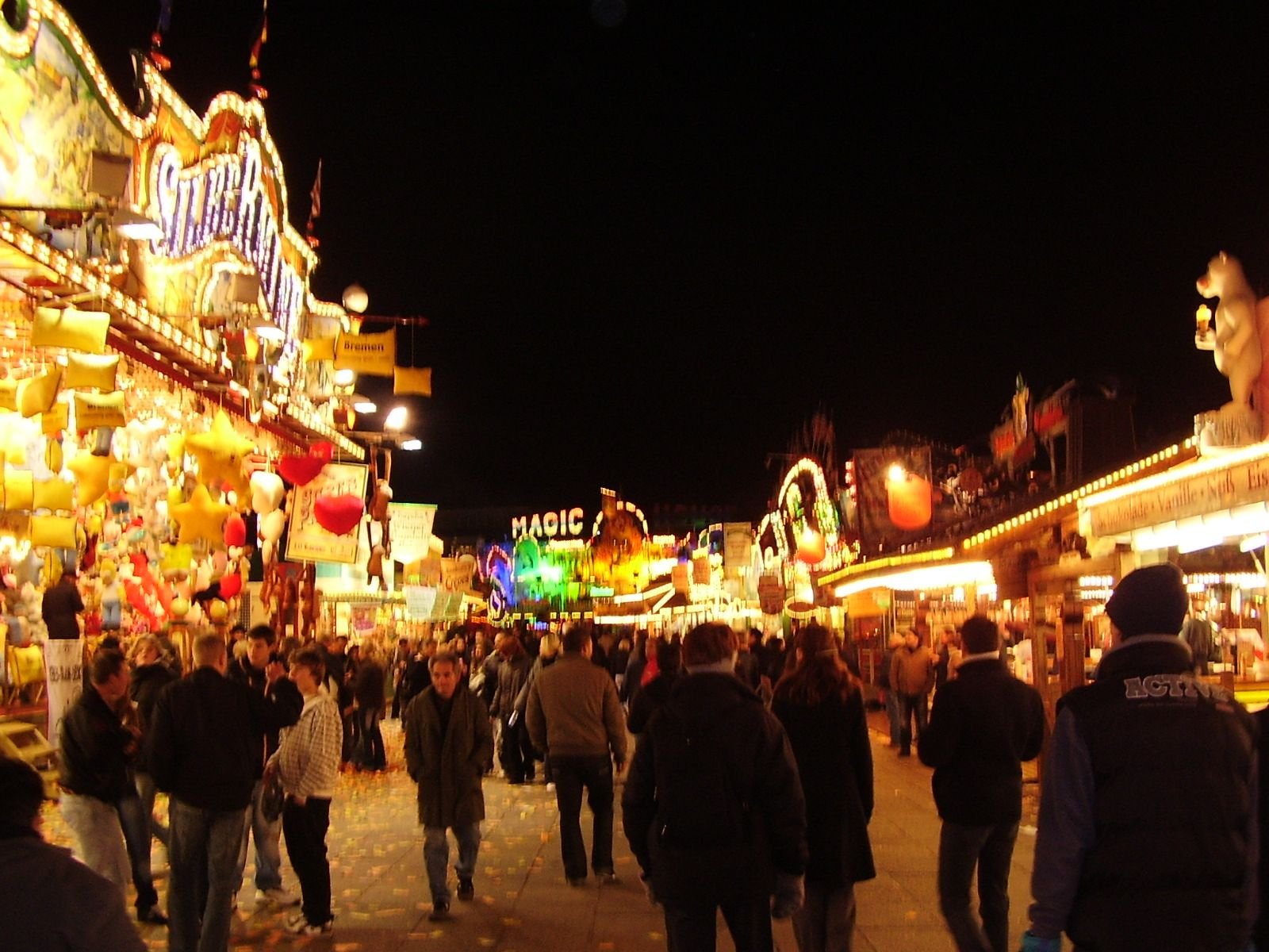 "Street" in the Freimarkt, Bremen